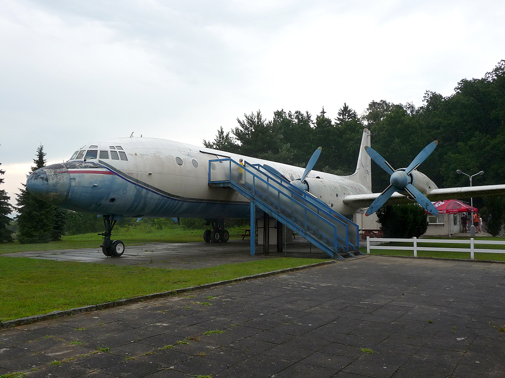 Ilyushin Il-18, Restaurant, Bakov nad jizerou, Czech Republic